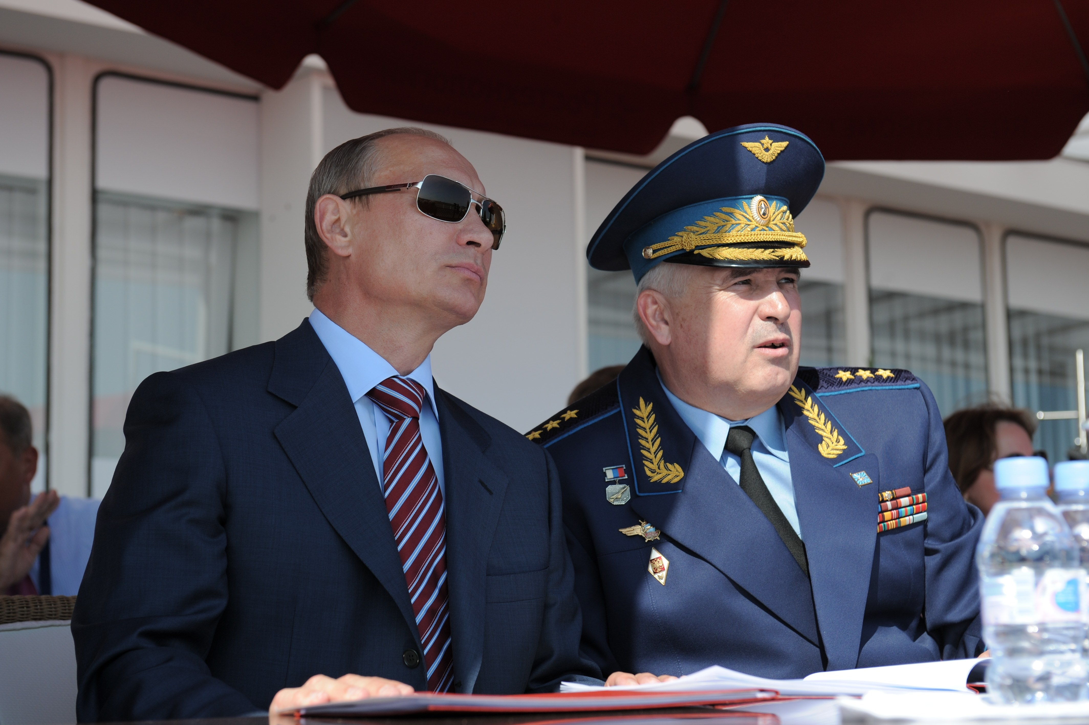 Russian Prime Minister Vladimir Putin and the Commander-in-chief of the Air Force of the Russian Federation Colonel General Alexander Zelin at the air show "MAKS-2011"